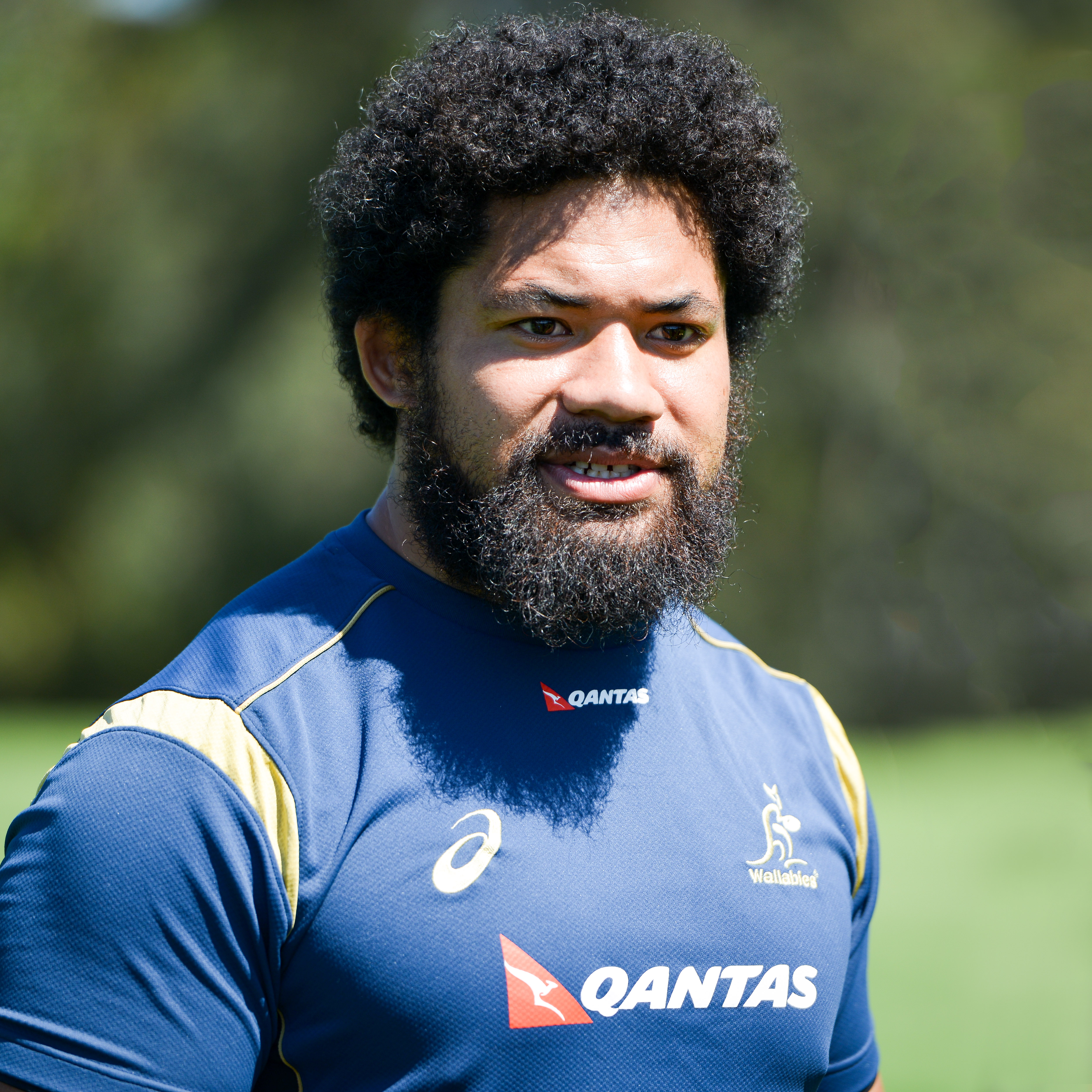 Tatafu Polota-Nau after Kids Clinic in Sydney